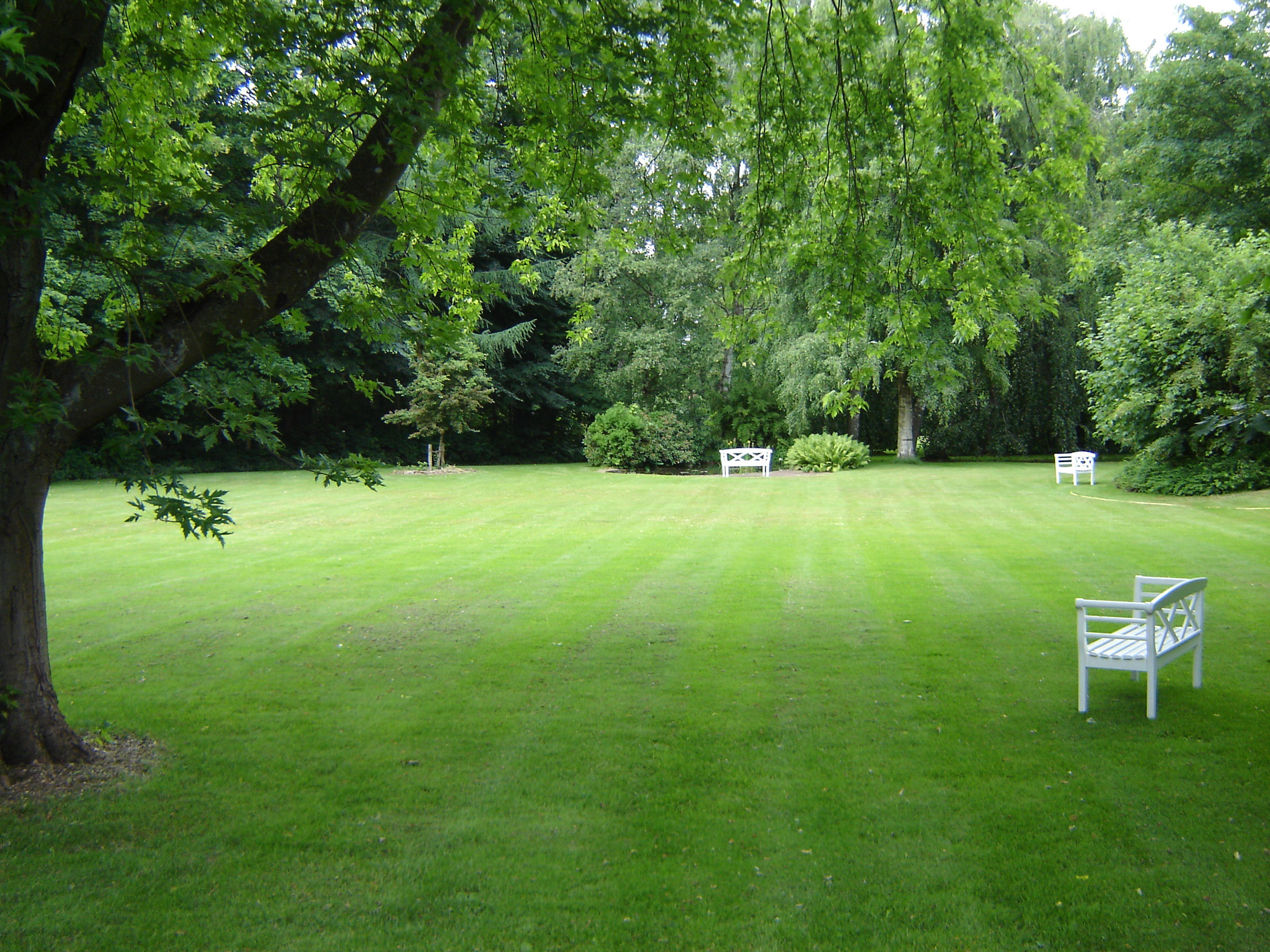 Nordsee Akademie in Leck (Nordfriesland), Germany